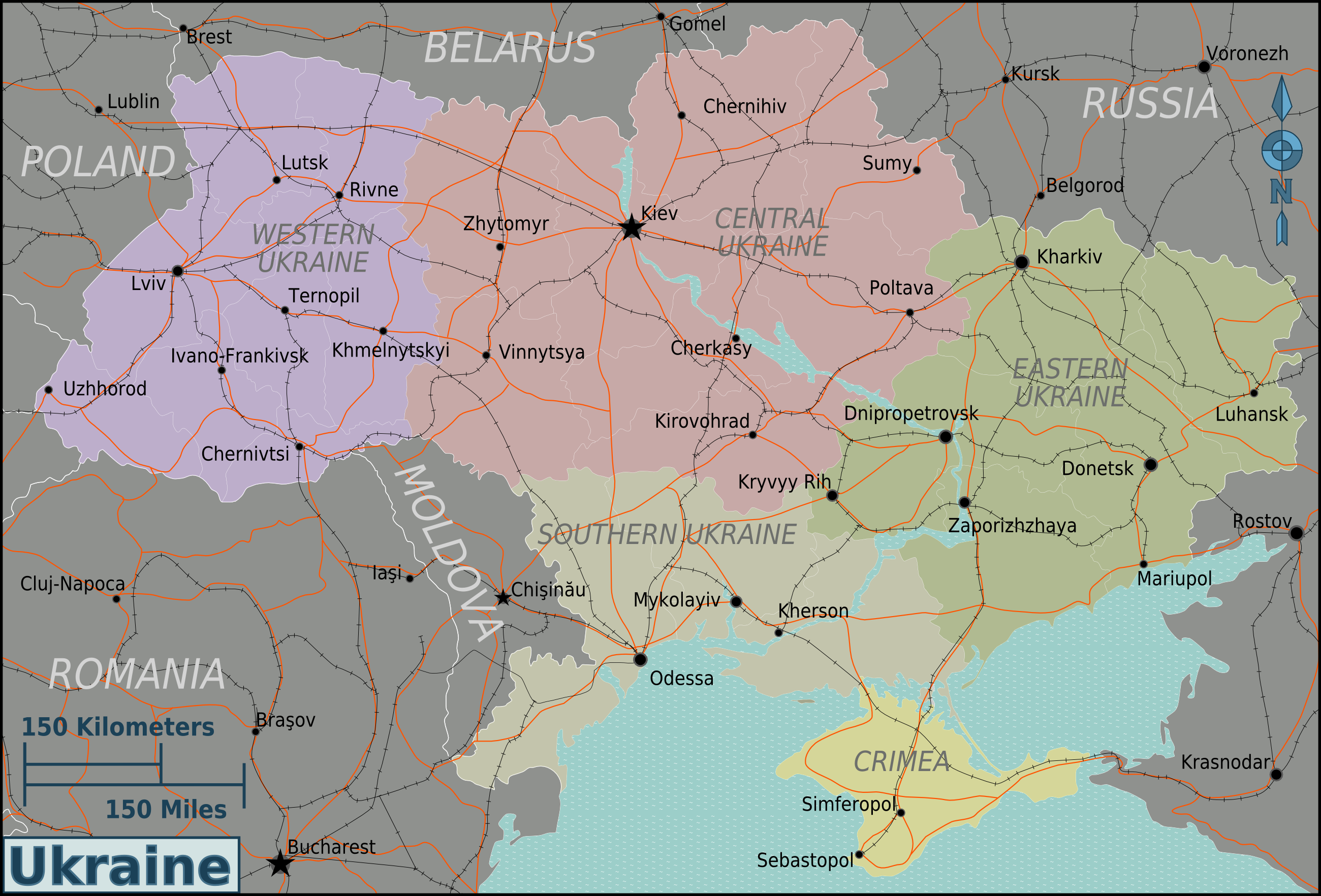 Ukraine regions map. English version, Ukraine Map of: Ukraine¤.